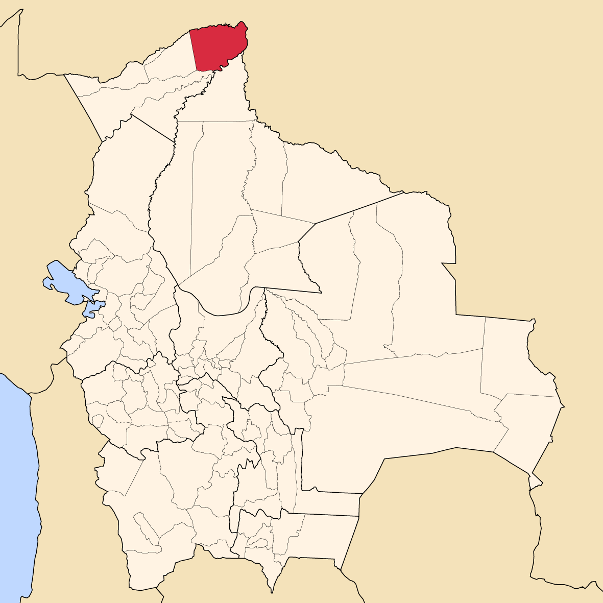 Map of Bolivia showing Federico Román province, Pando